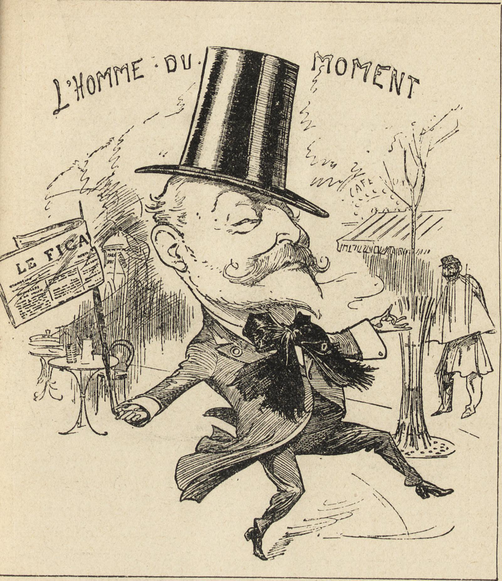 Title: "L'oncle de l'Europe" devant l'objectif caricatural : images anglaises, françaises, italiennes, allemandes, autrichiennes, hollandaises, belges, suisses, espagnoles, portugaises, américaines, etc. Year: 1906 (1900s) Authors: Grand-Carteret, John, 1850-1927 Subjects: Edward VII, King of Great Britain, 1841-1910 French wit and humor, Pictorial French wit and humor Publisher: Paris : L. Michaud Text Appearing Before Image: LEMPEREUR DES INDES. — Spectacle merveilleux, le lion et léléphant couronnés. (Ally Sloptrs, de Londres, 17 janvier 1903) LES CARICATURES ANGLAISES 155 Text Appearing After Image: LE ROI ÉDOUARD VISITANT LE GAI PARIS. (Ally Slopcrs, de Londres, 26 avril 1903). ♦Comme en peut le voir, le principal titre de cette joyeuse vignette est en français surloriginal. Et VOncle comme le Neveu est toujours représenté avec Le Figaro en main, LeFigaro personnifiant à létranger lesprit et le bon ton de Paris.